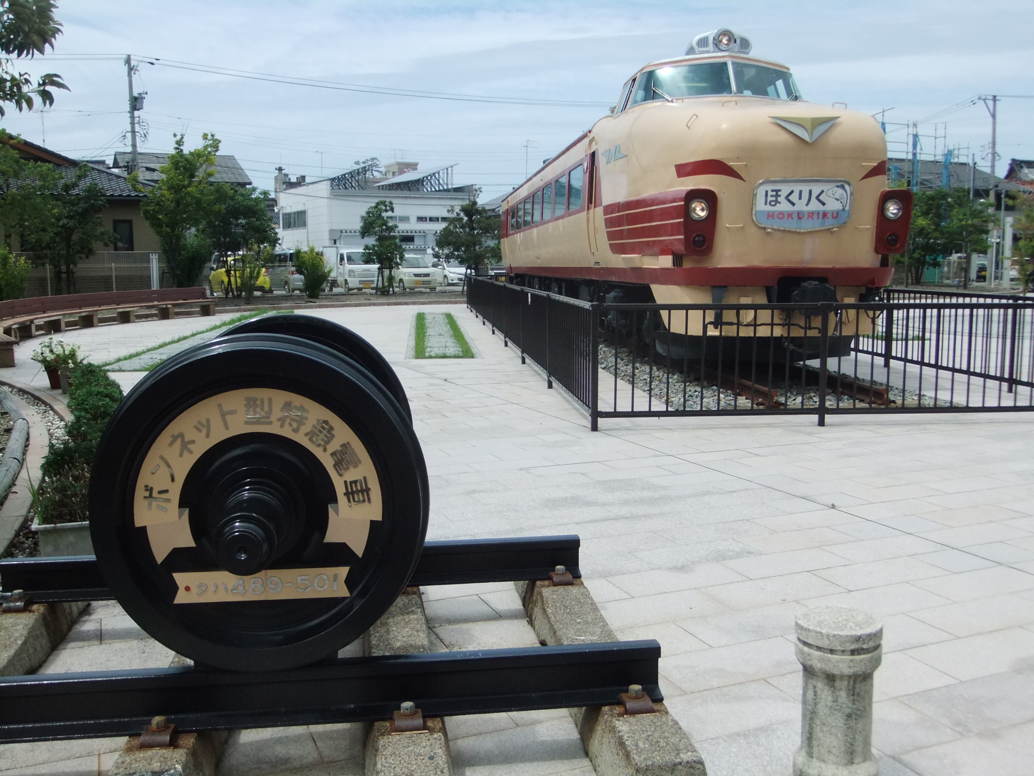 Preserved JNR 489 series EMU car KuHa 489-501 at Doihara Bonnet Square in Komatsu, Ishikawa Prefecture, Japan